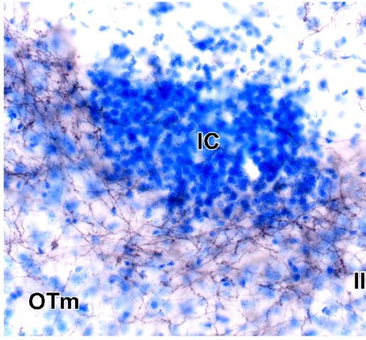 Coronal Nissl-counterstained sections of the rat brain showing anterograde labeling after a biotinylated dextran-amine injection into the posterolateral cortical amygdaloid nucleus. The Islands of Calleja are visualized under IC abbreviation.